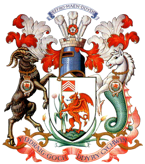 Coat of Arms of Cradiff with transprent background